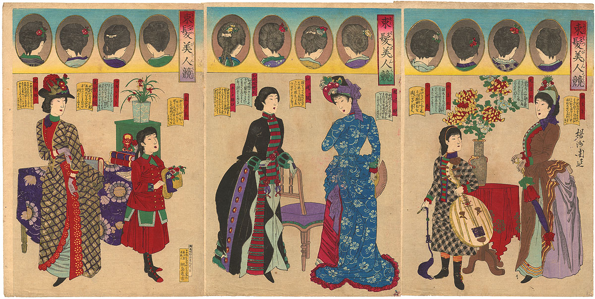 A Comparison of Beautiful Women in Western Hairstyles -Women and girls in Western dress with various hairstyles